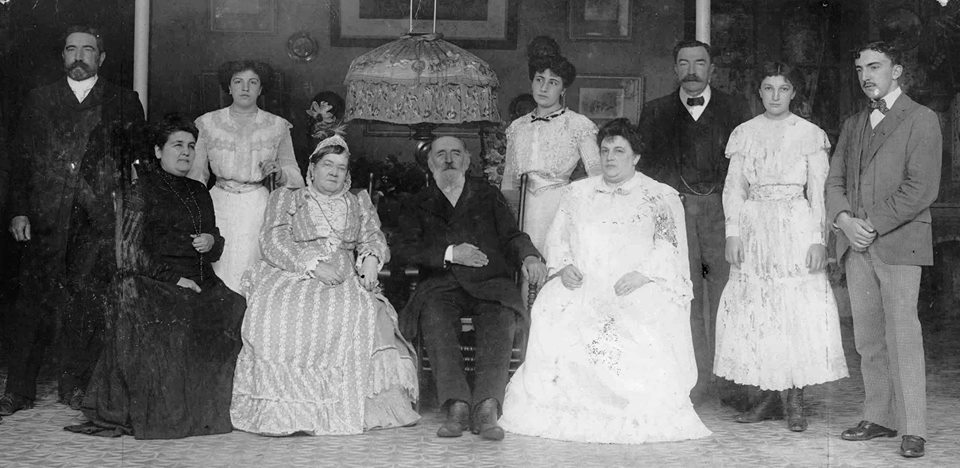 Former president of Argentina, Luis Sáenz Peña, with his son Roque and other members of his family, during his 82° birthday.